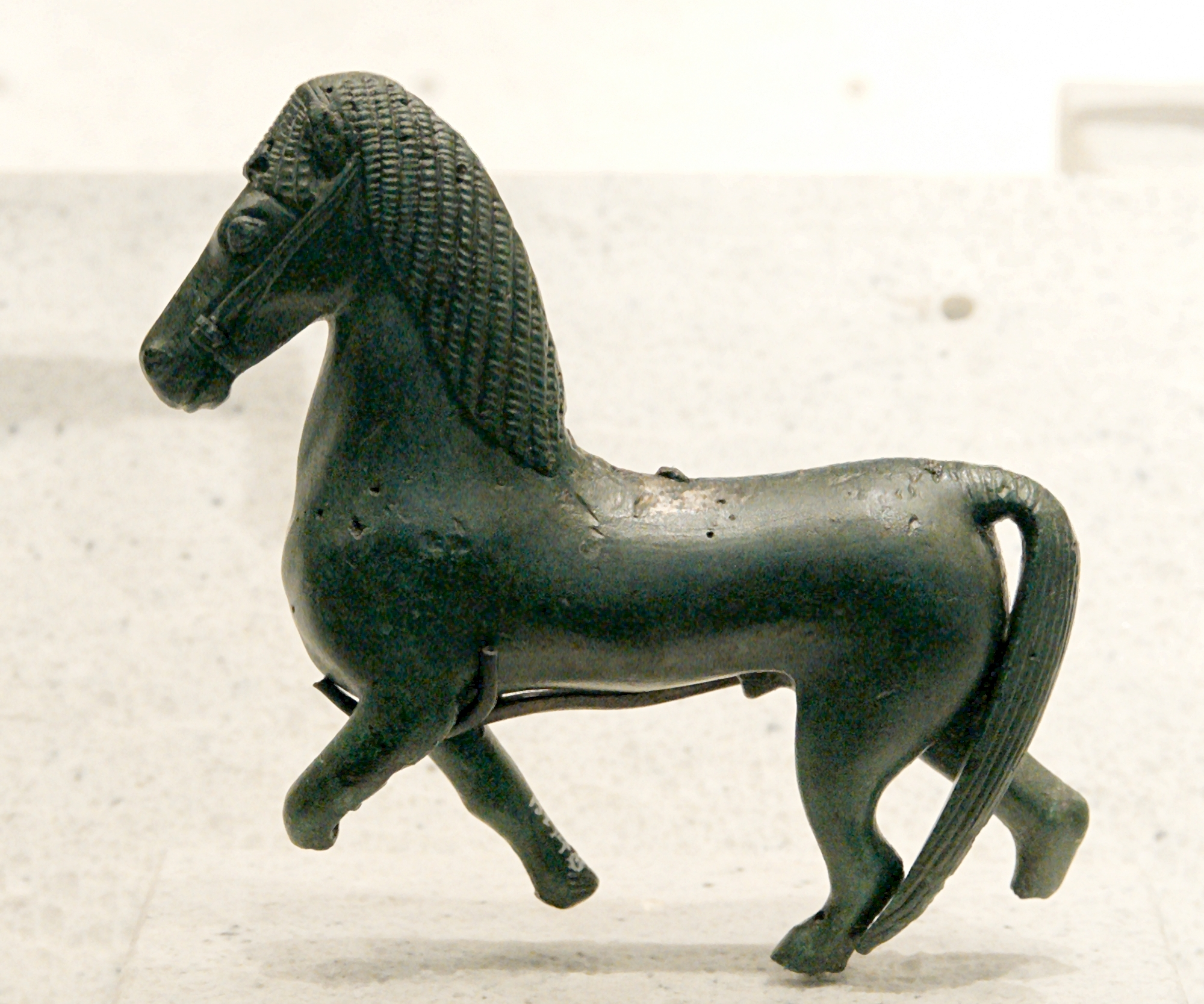 Horse and a rider (here missing, perhaps to be identified with a rider figurine now in the National Archaeological Museum in Athens). Bronze figurine in the Corinthian style, last quarter of the 6th century BC. From Dodona in Epirus.